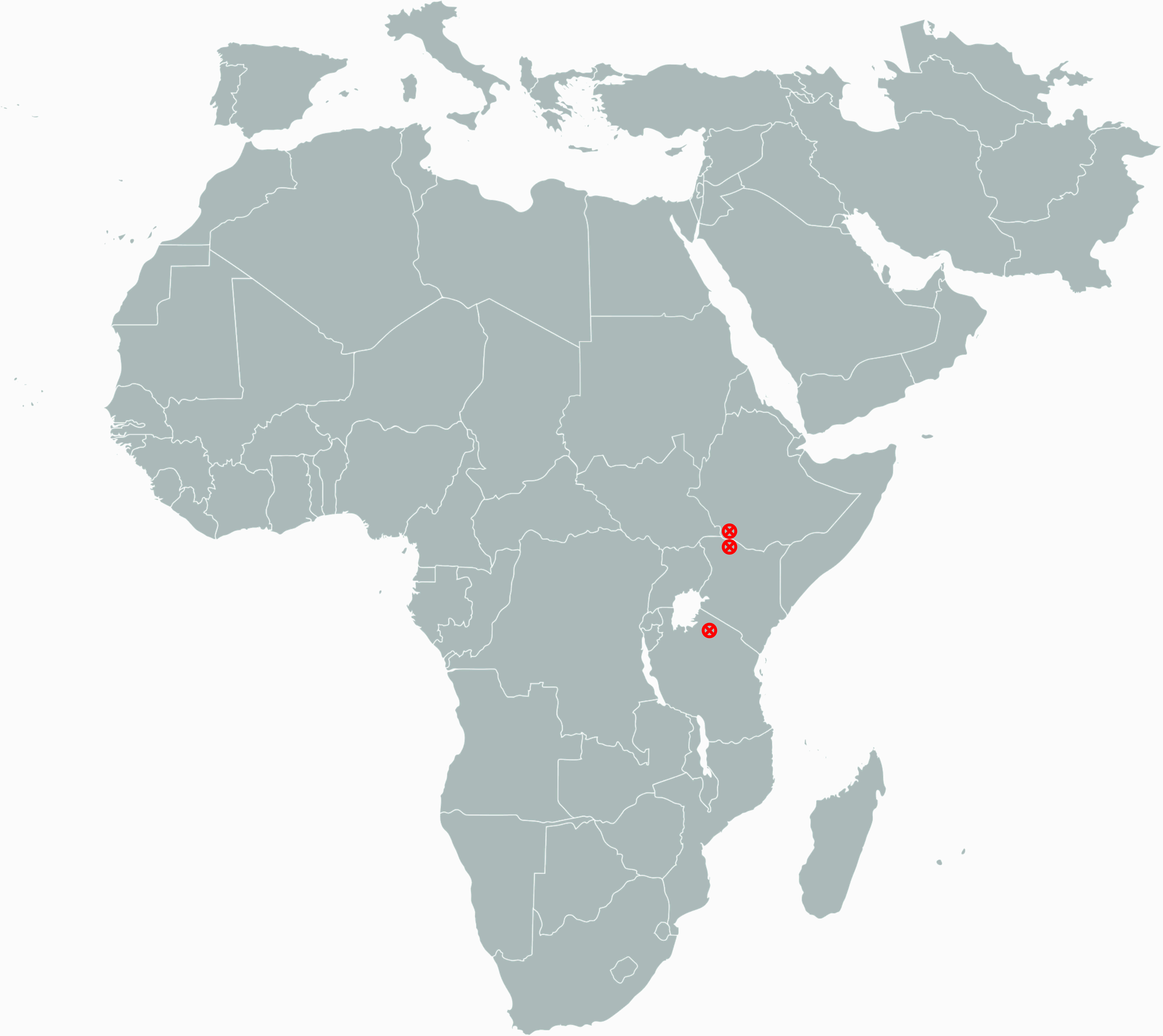 Paranthropus (Australopithecus) aethiopicus paleoanthropological sites in Tanzania, Kenya and Ethiopia (Laetoli, Lake Turkana, Omo)